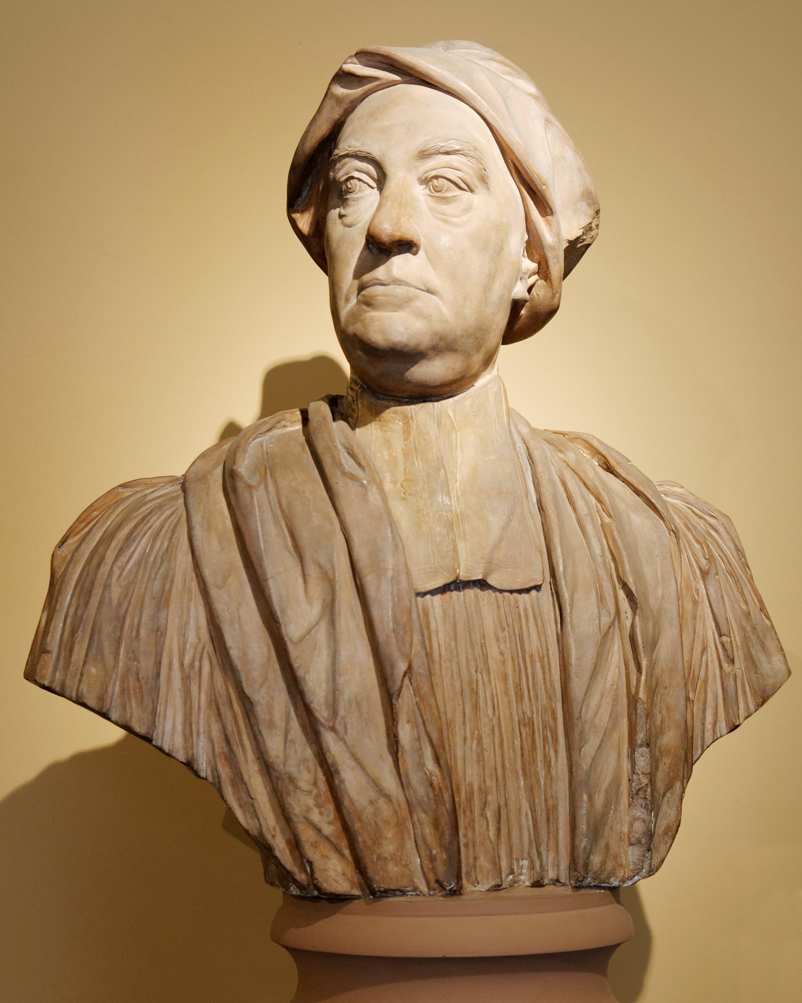 Portrait of Edward Finch (1663–1738), English canon